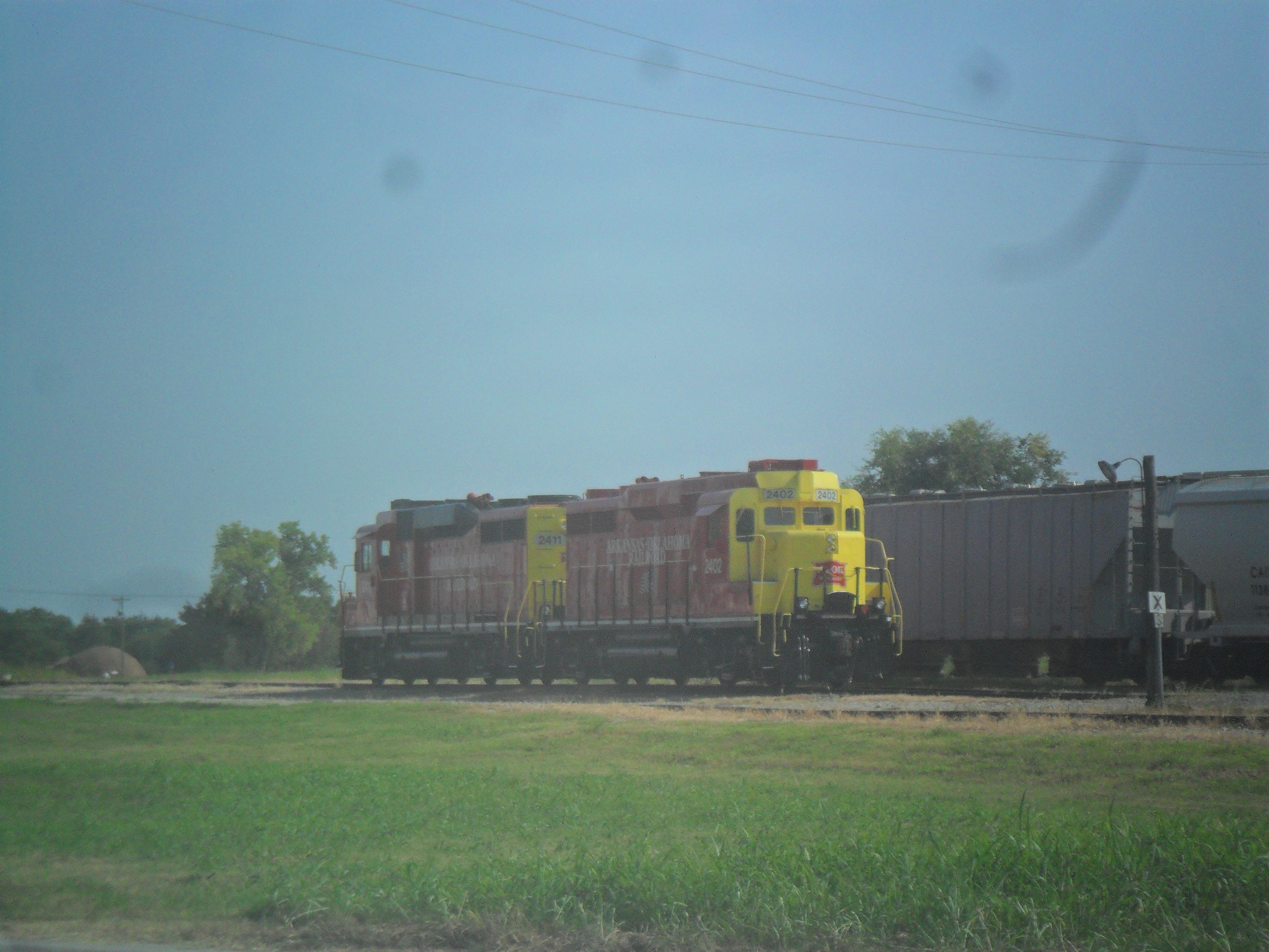 Arkansas-Oklahoma Railroad diesels 2402 and 2411, both EMD GP30s, at the AOK yard in Shawnee, Oklahoma.